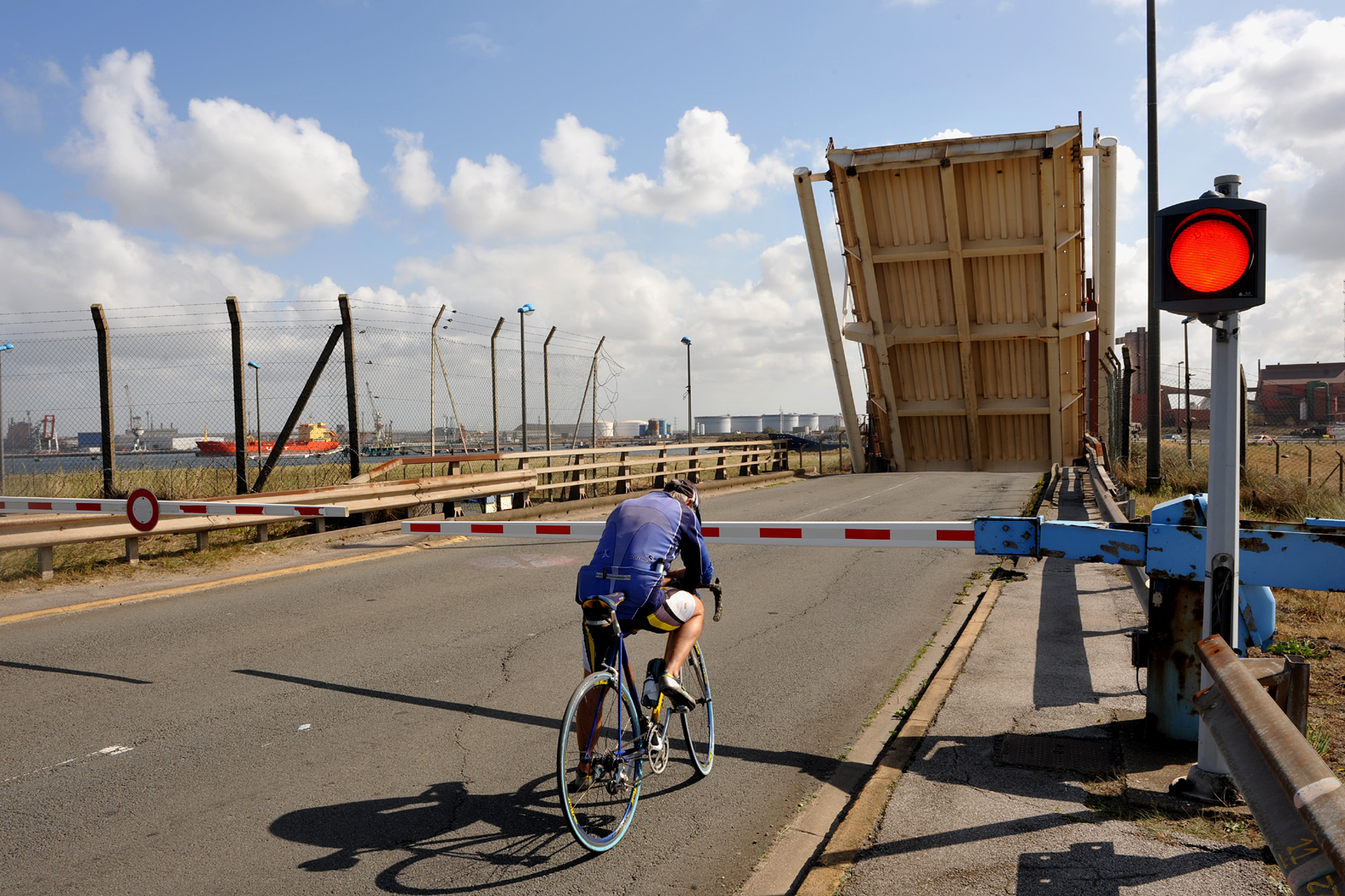 Pont de l'écluse de Mardyck, bascule bridge near the Basin de Mardyck; Nord, France.